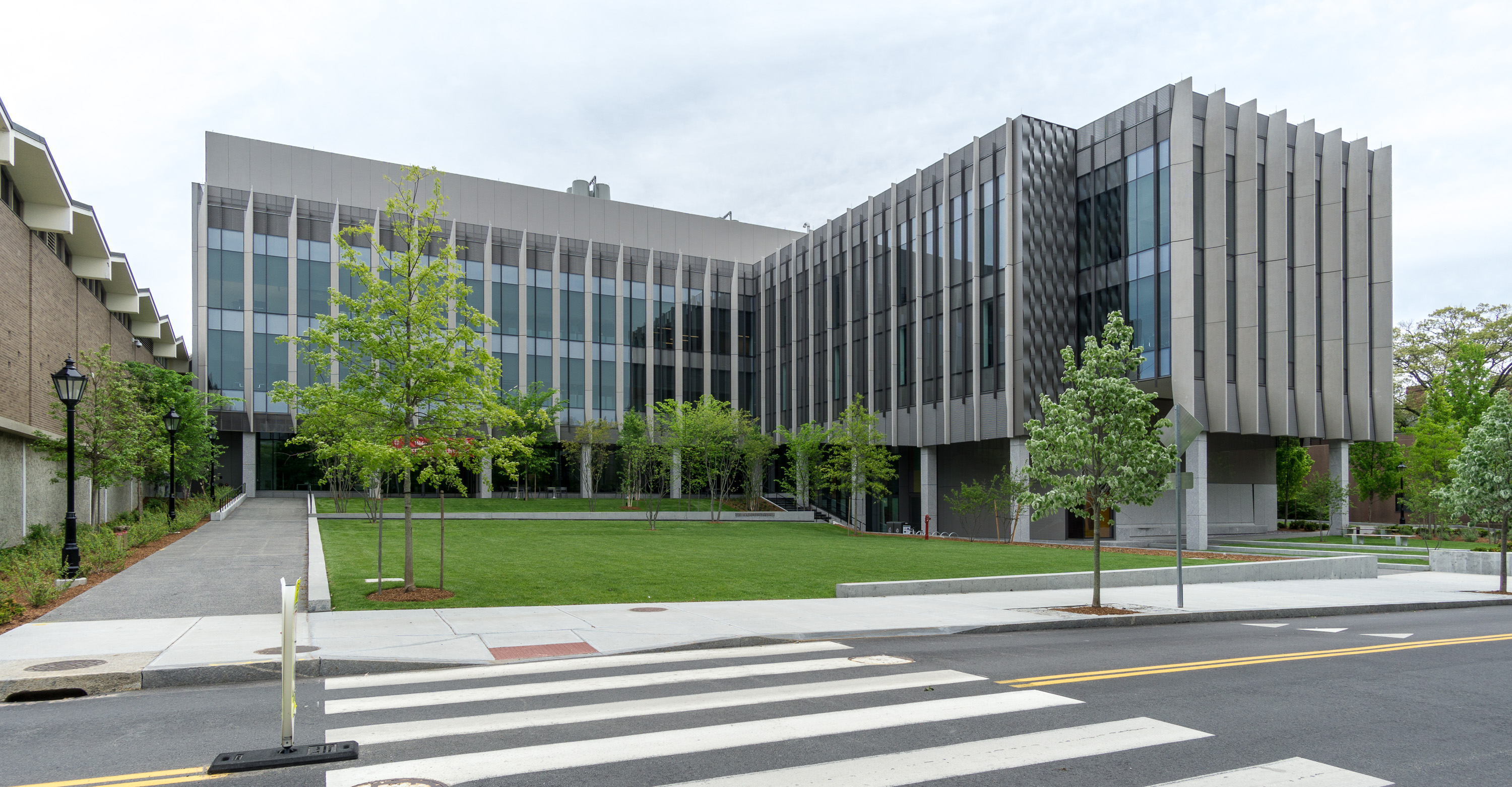 Brown University School of Engineering Research Center. Architect: KieranTimberlake. Completed Fall 2017. Dedicated May 2018.